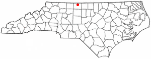 Category:North Carolina Dot Maps